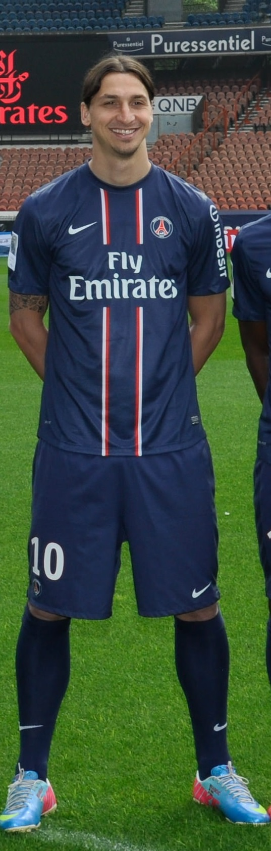 Zlatan Ibrahimović at Parc des Princes.